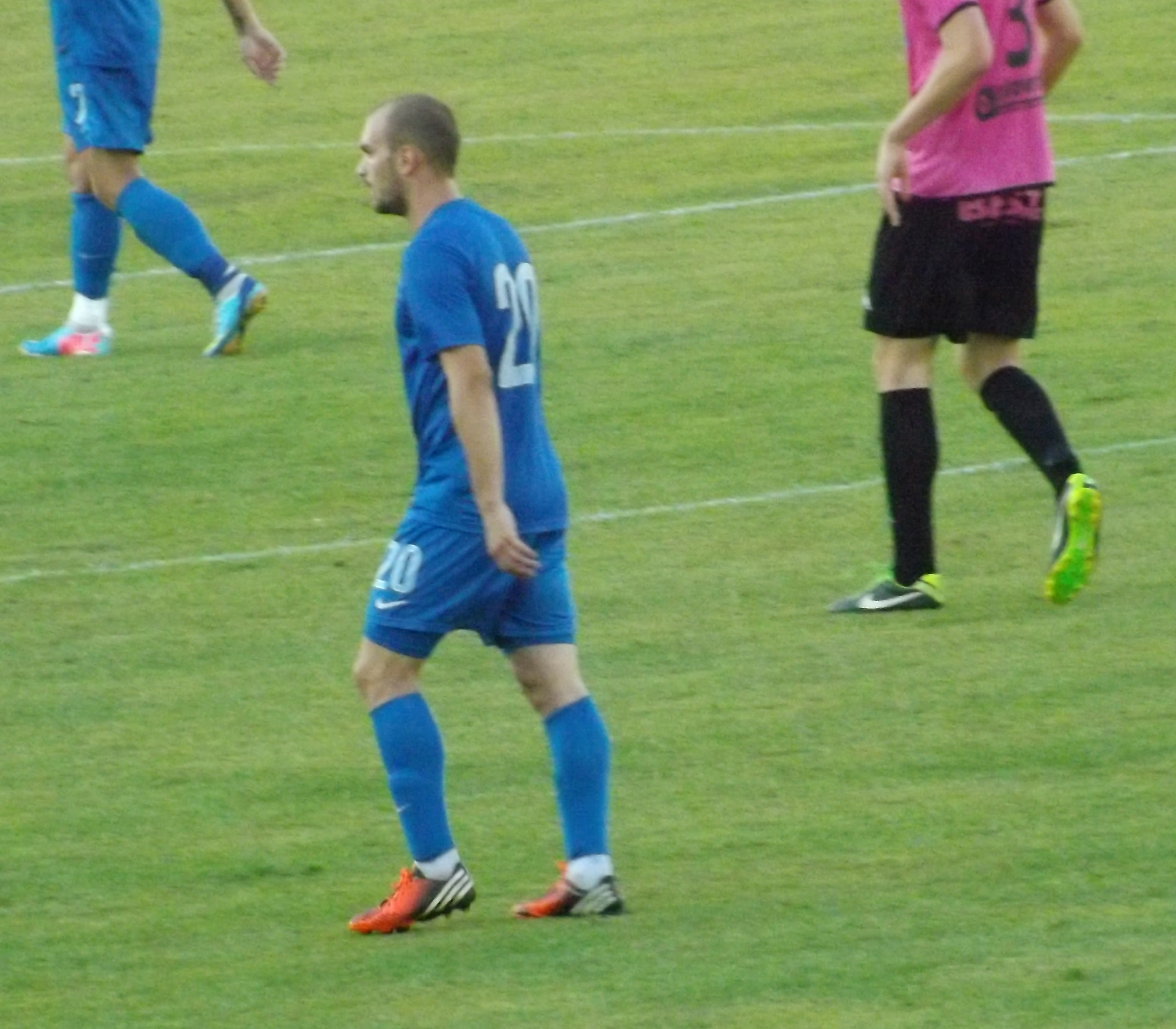 Lefteris Matsoukas playing for Iraklis in a friendly match against Veria.